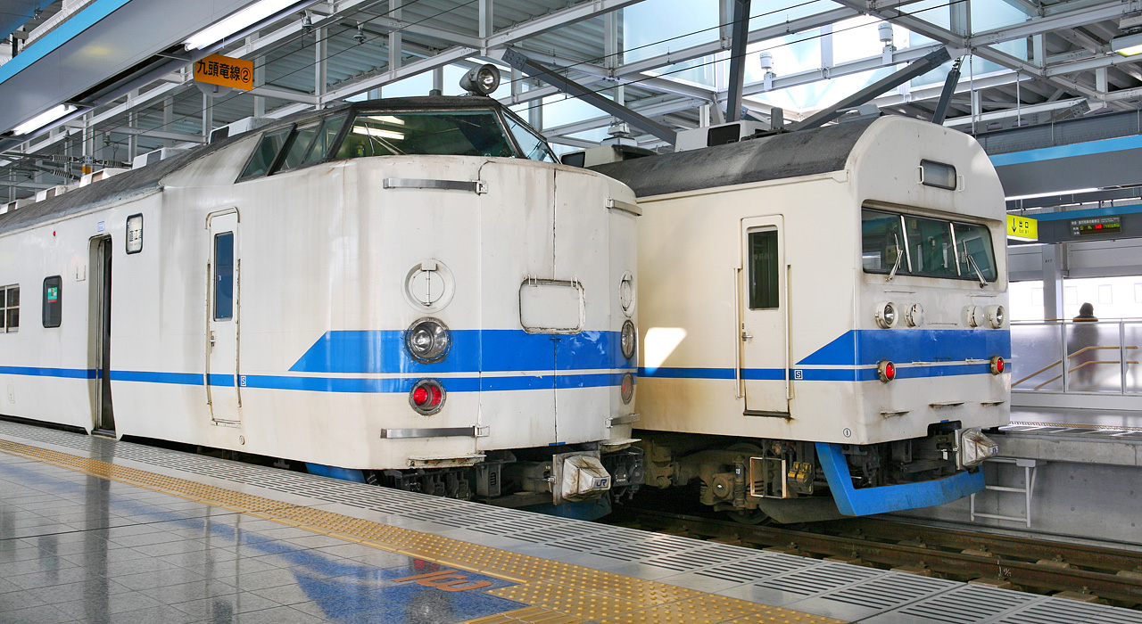 JR West 419 series EMUs at Tsuruga Station, with set D14 on the left